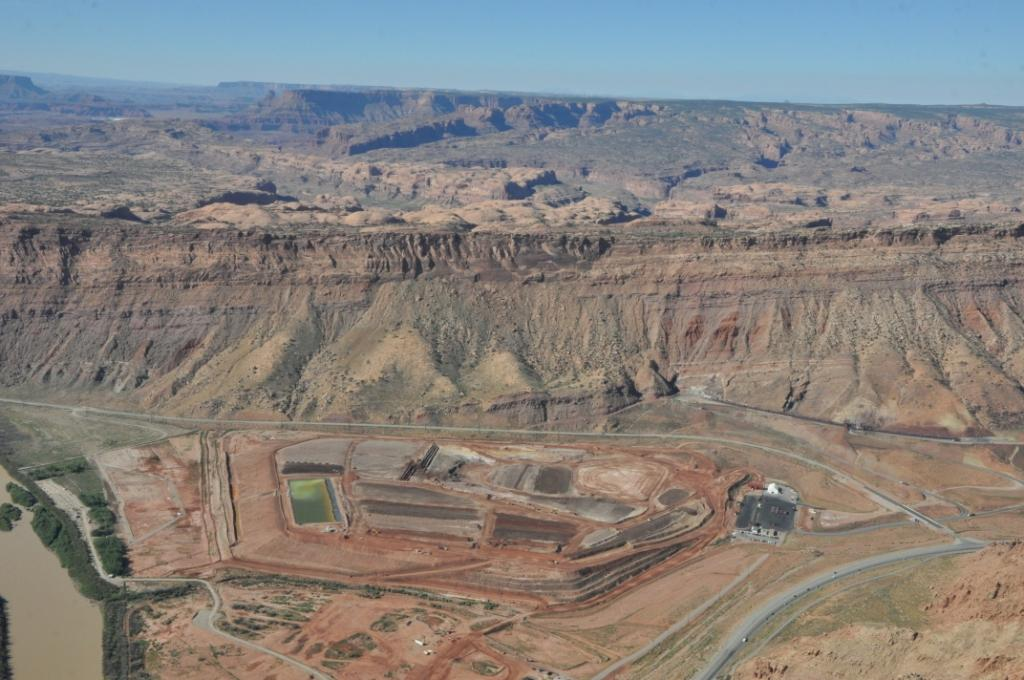 A view of the Moab uranium mill tailings pile. Uranium ore was mined in significant quantities in the U.S. for more than 40 years. Mill tailings are the sand-like material that remains after the ore is processed.